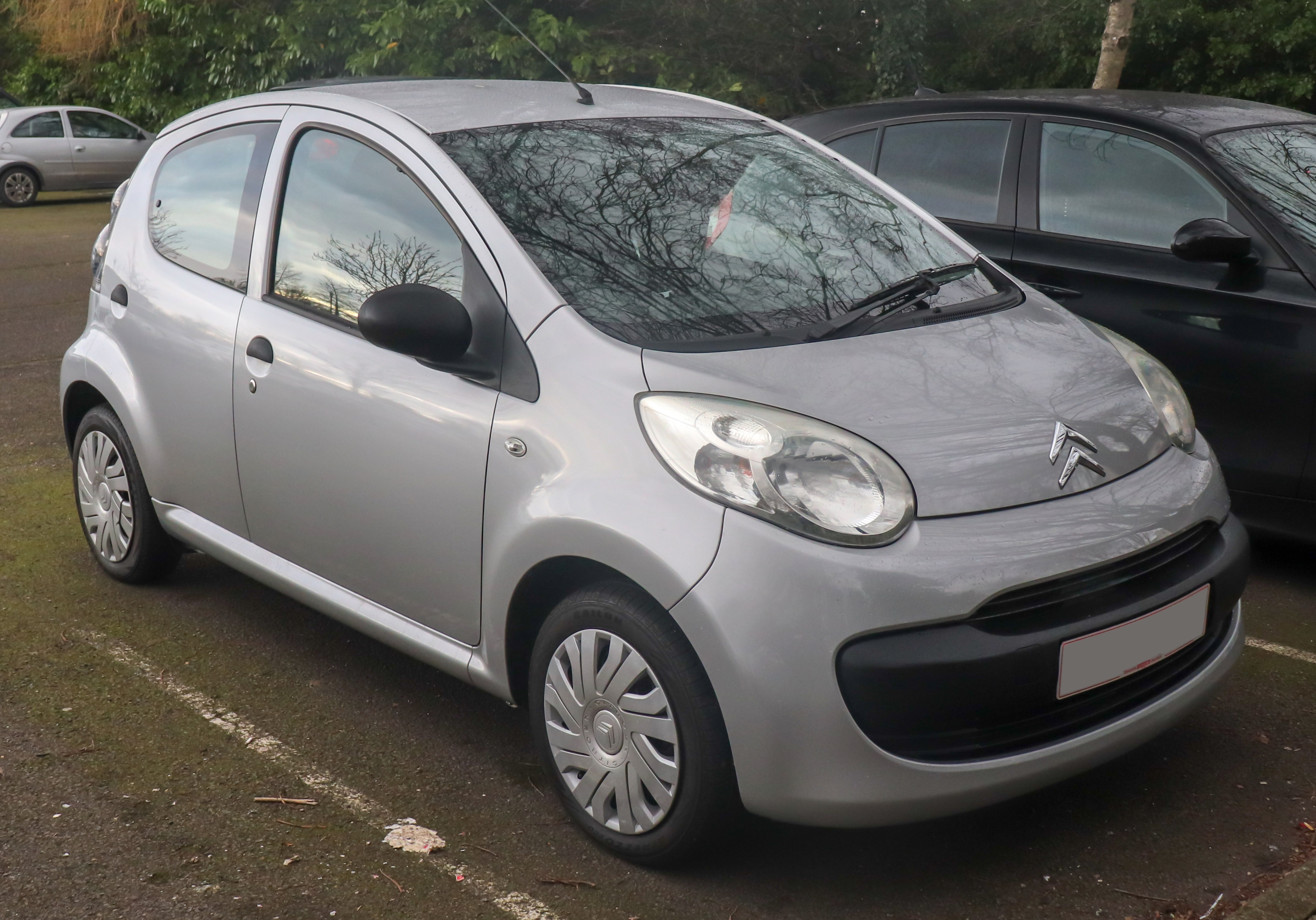 2006 Citroen C1 Vibe 1.0 Front Taken in Leamington Spa